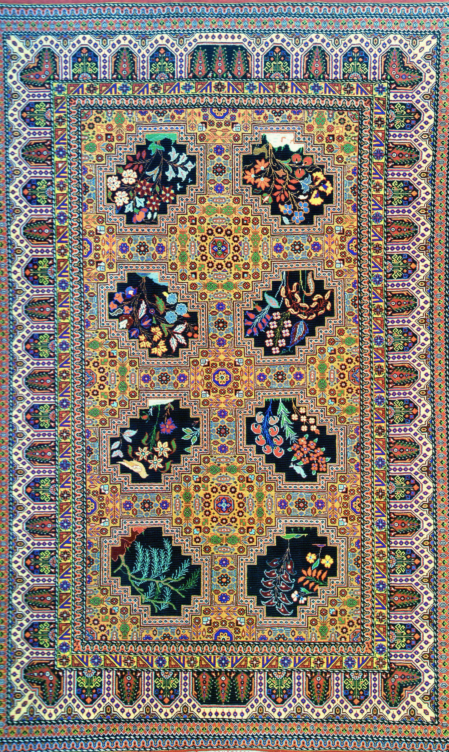 Latif Kerimov. "The Spring" carpet, 1967 The R. Mustafayev State Museum of Art. Baku.